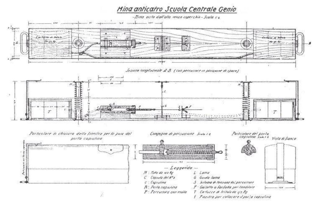 WWII italian anti-tank mine